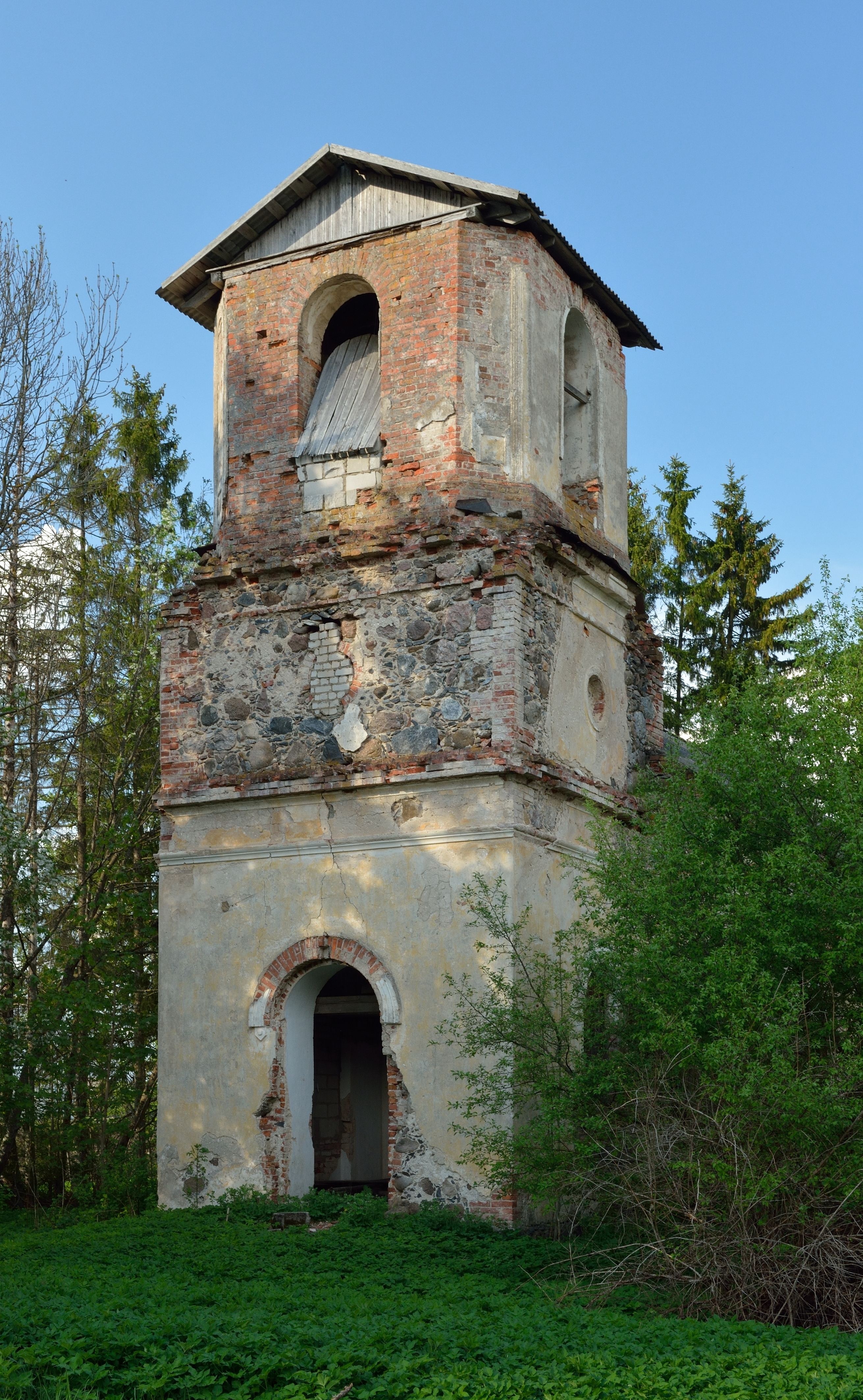 Ruins of Saduküla orthodox church